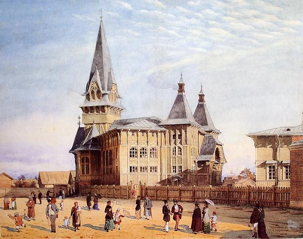 Albert Benois. Luteran church of St. Mary in Petersburg Side, perspective view. 1881.